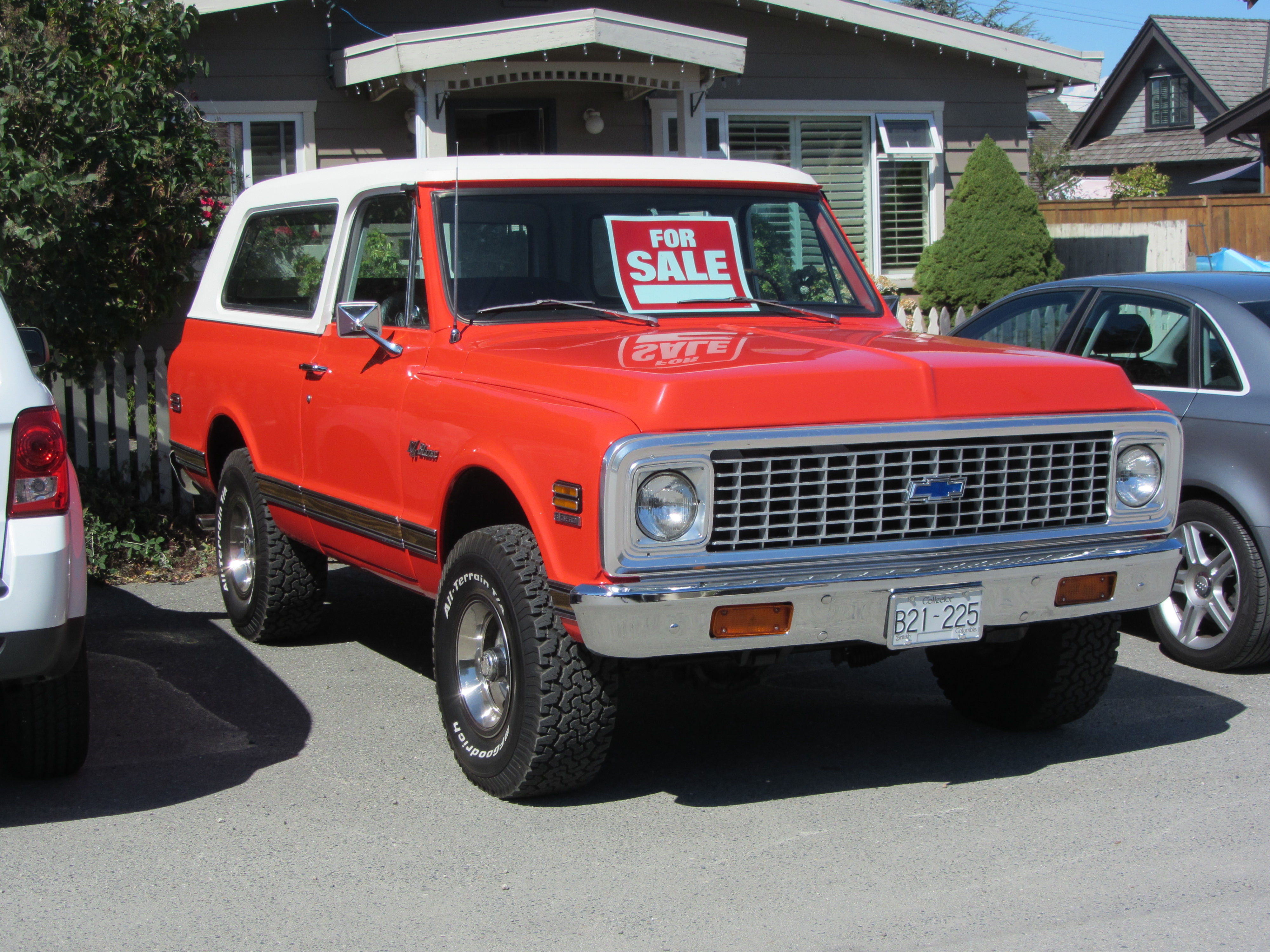 Seen on the street at Crescent Beach, Surrey, B.C.